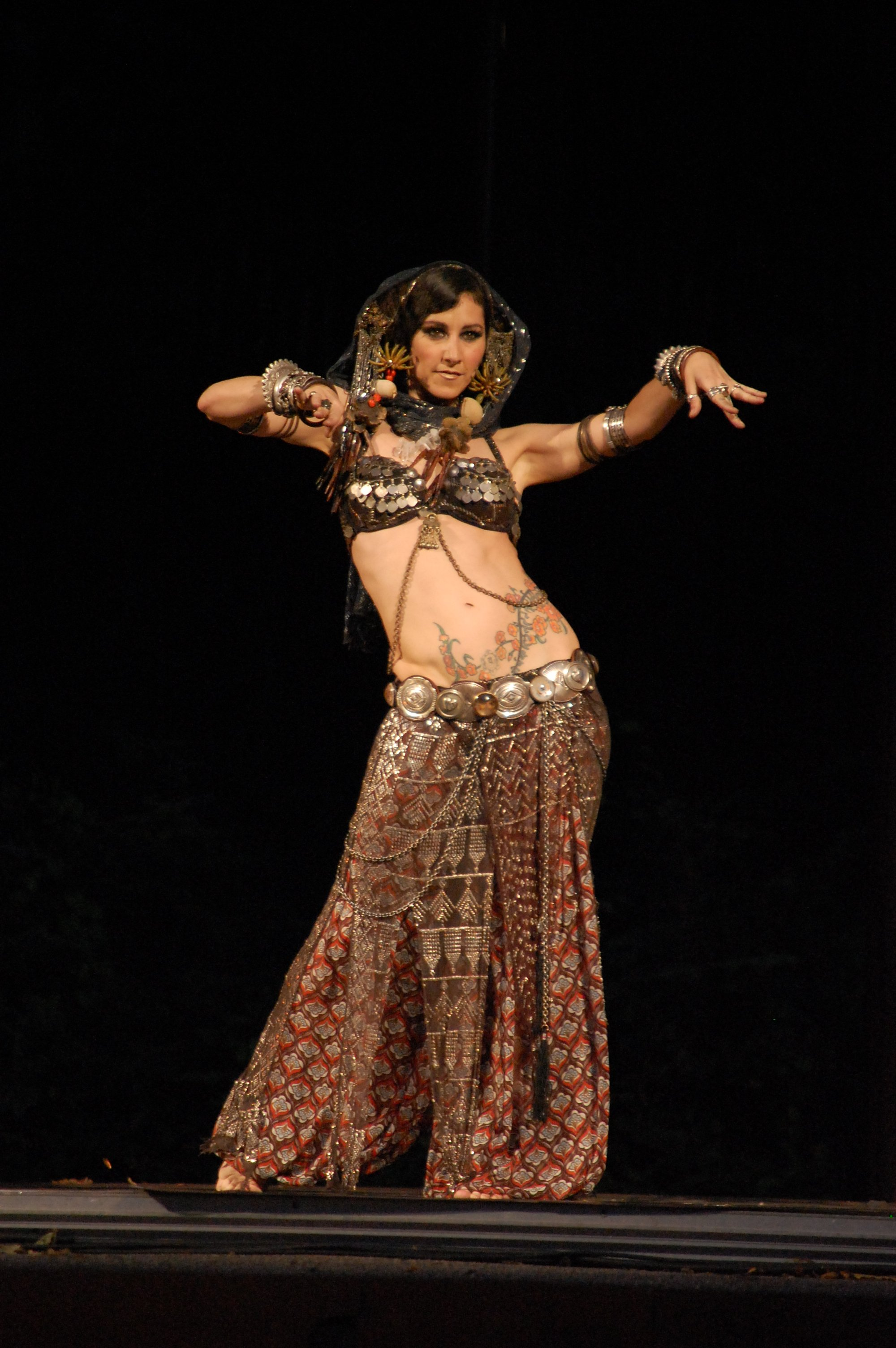 Rachel Brice, at the Tribal Umrah festival, Rennes August 2012